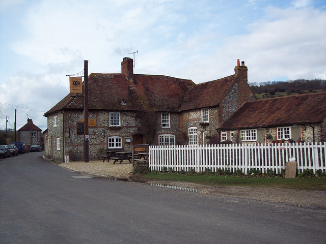 The Fox Goes Free Inn, Charlton In the 18th century Charlton was renowned as the home of the first and most famous regular foxhunt in England, with more than 150 horses stabled here at one time. Its crowning glory was a 10 hour chase in 1738.